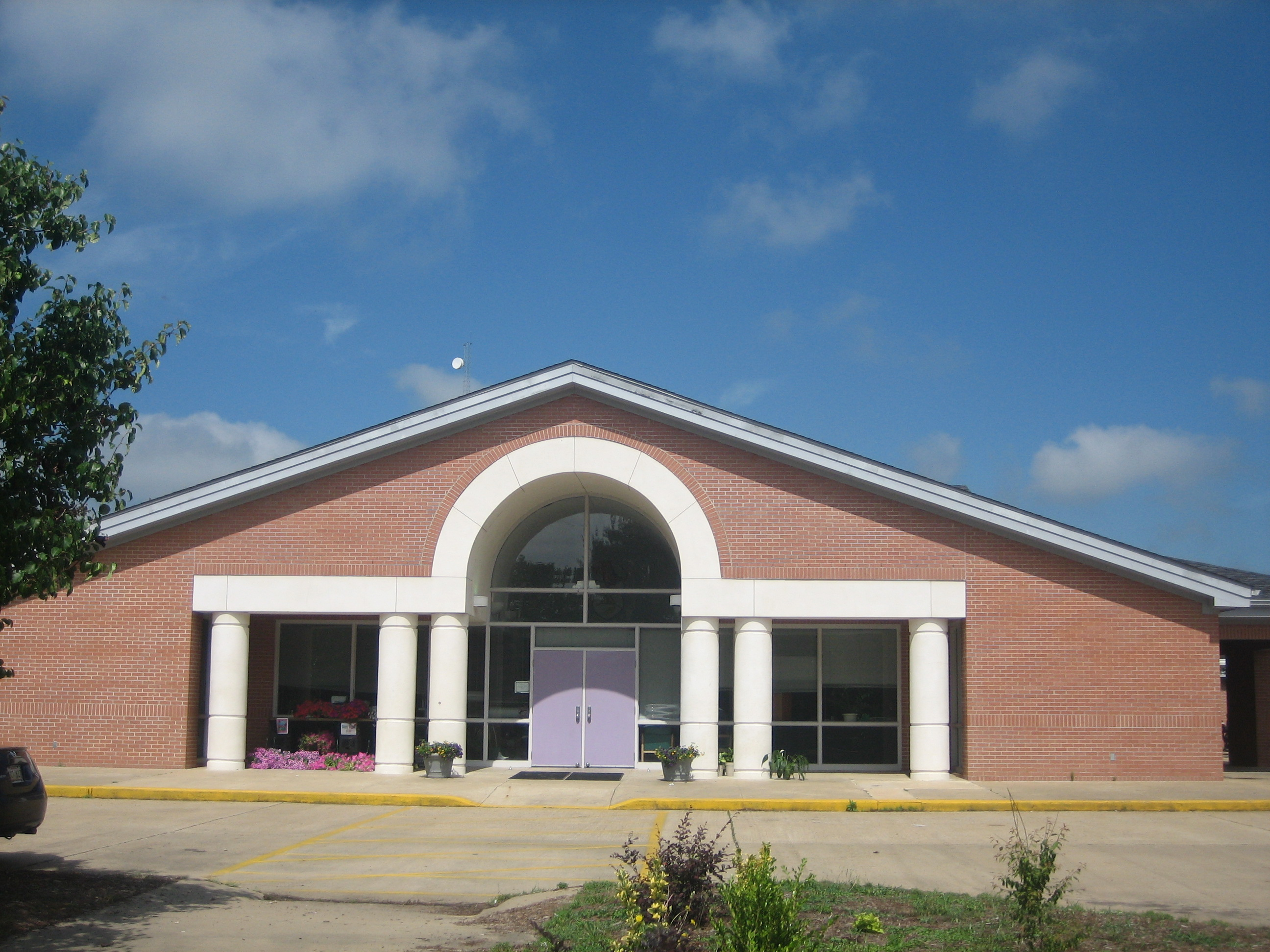 I took photo on May 27, 2009.Billy Hathorn (talk) 15:05, 31 May 2009 (UTC)